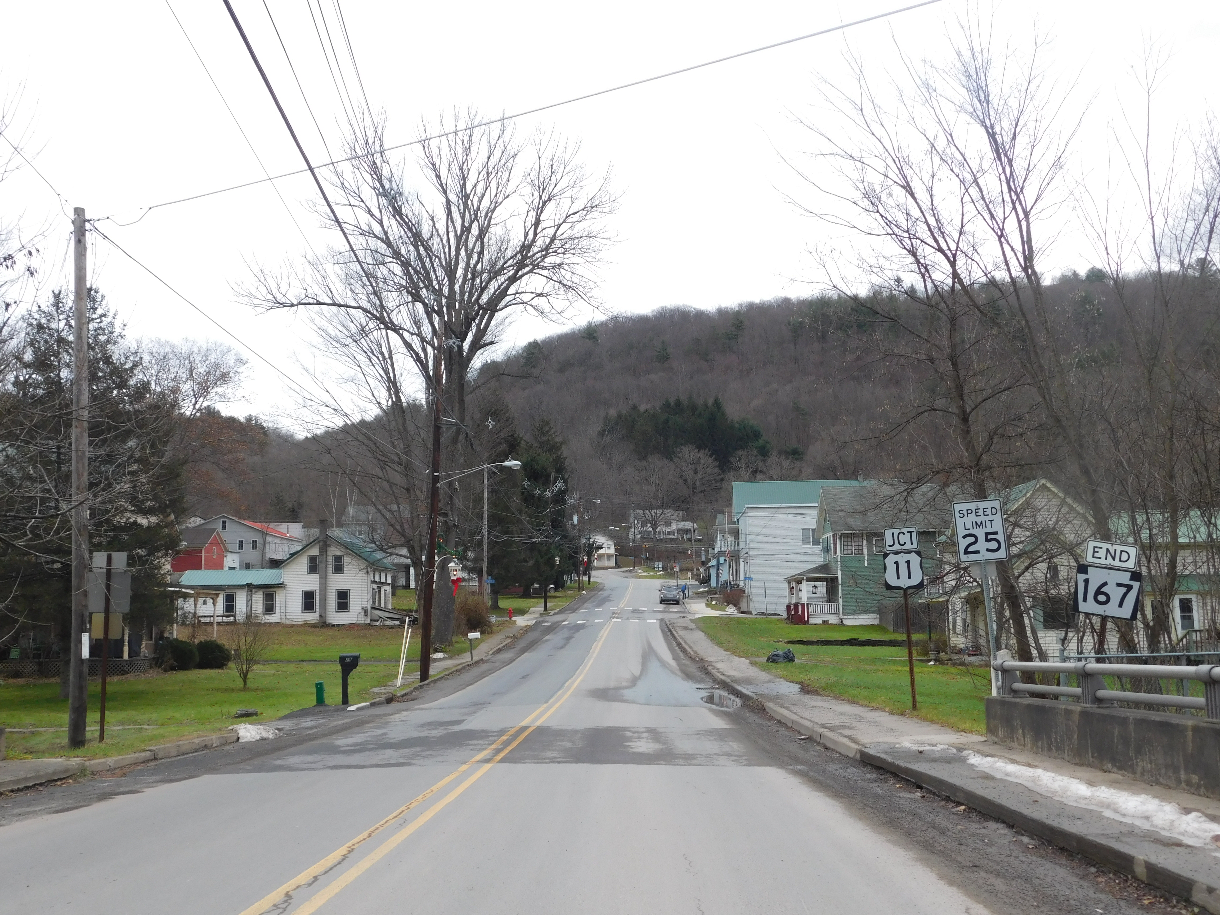 Pennsylvania Route 167 eastbound in Hop Bottom, Pennsylvania.